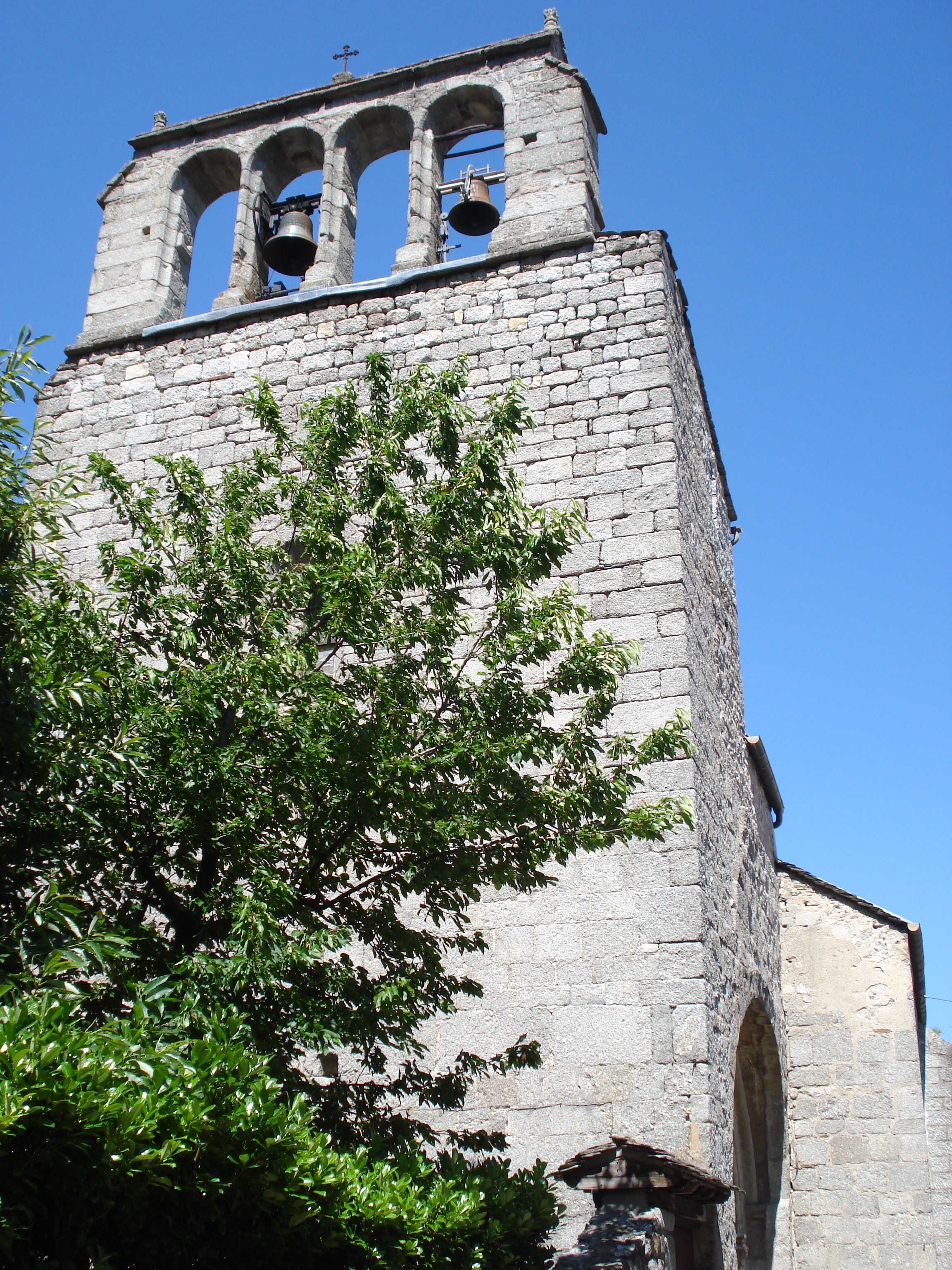 Génolhac (Gard, Fr), church with bell gable.JPG